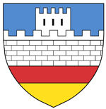 Coat of arms of Fischamend, Lower Austria